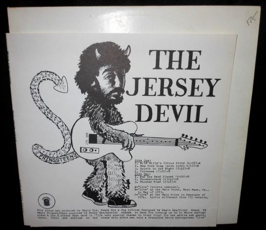 Cover of the 1975 Bruce Springsteen bootleg, "The Jersey Devil"